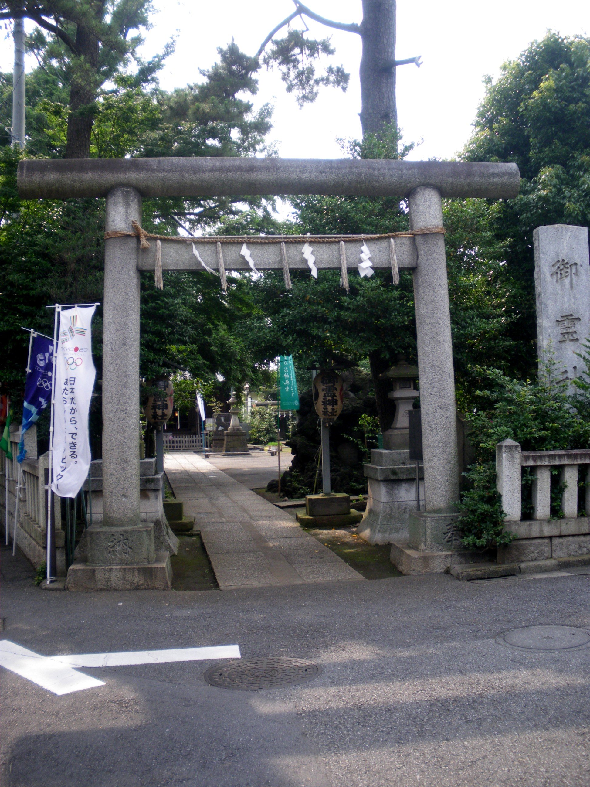 Nakai Goryo Jinja(Shinjuku,Tokyo)